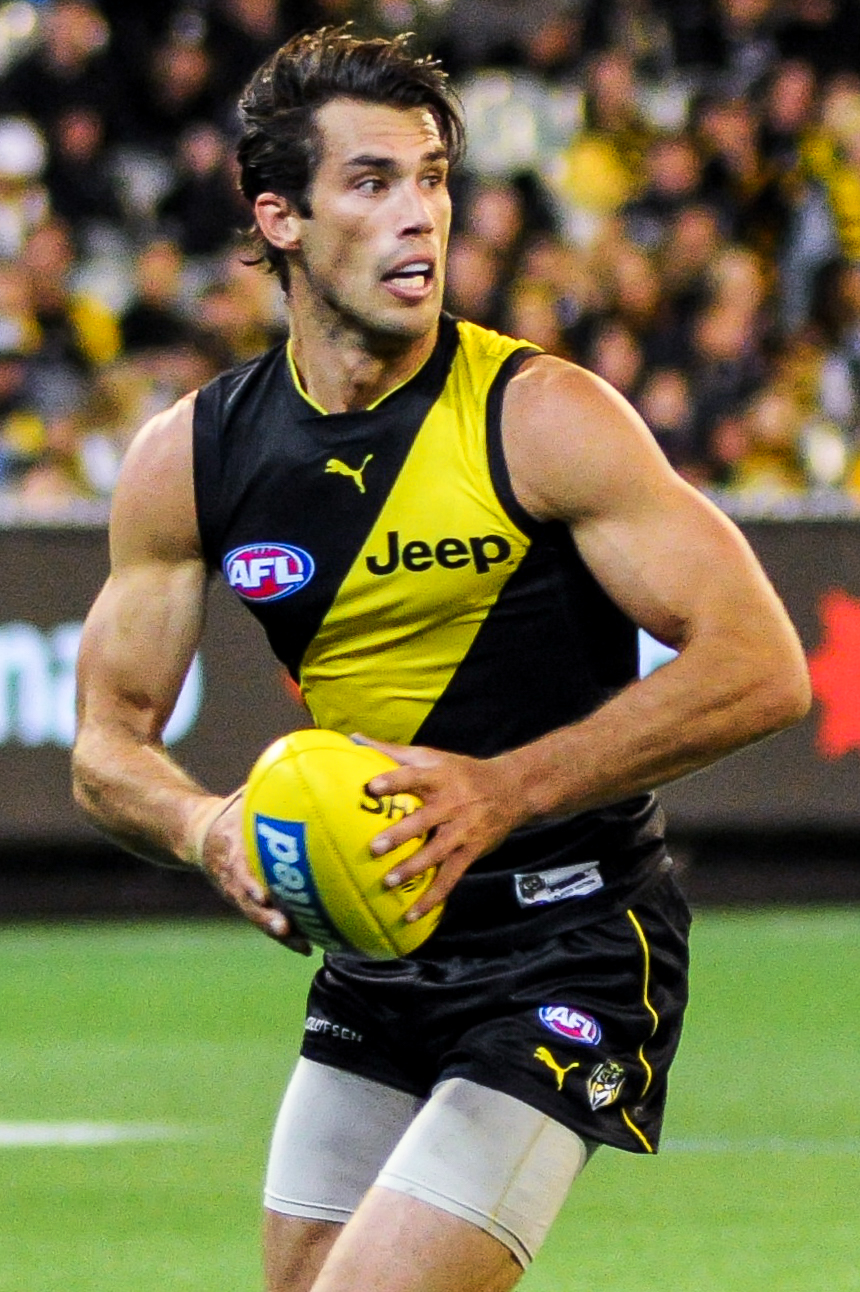 Alex Rance during the AFL round two match between Richmond and Collingwood on 30 March 2017 at the Melbourne Cricket Ground in Melbourne, Victoria.